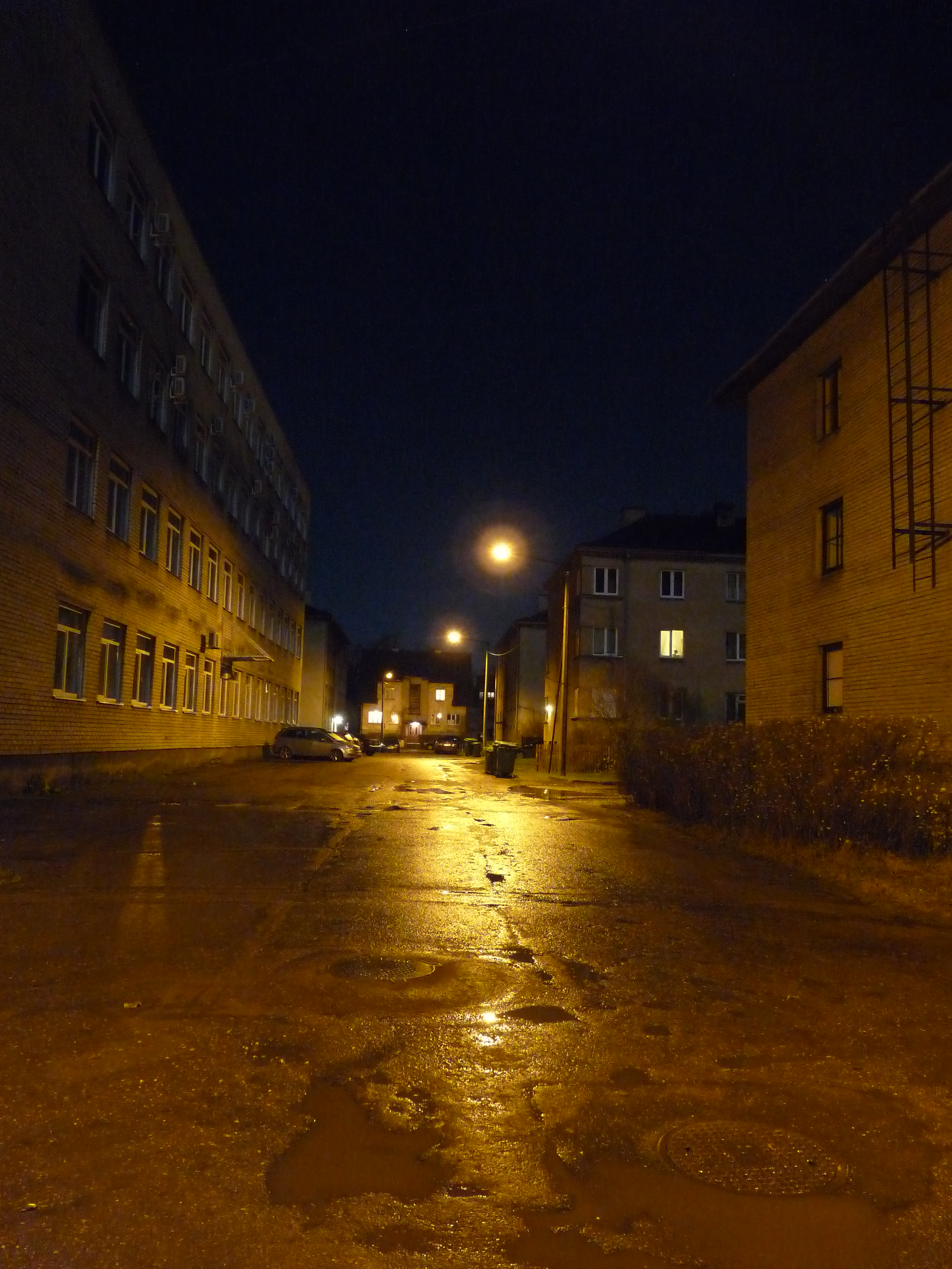 Söödi street in Tallinn, Estonia.